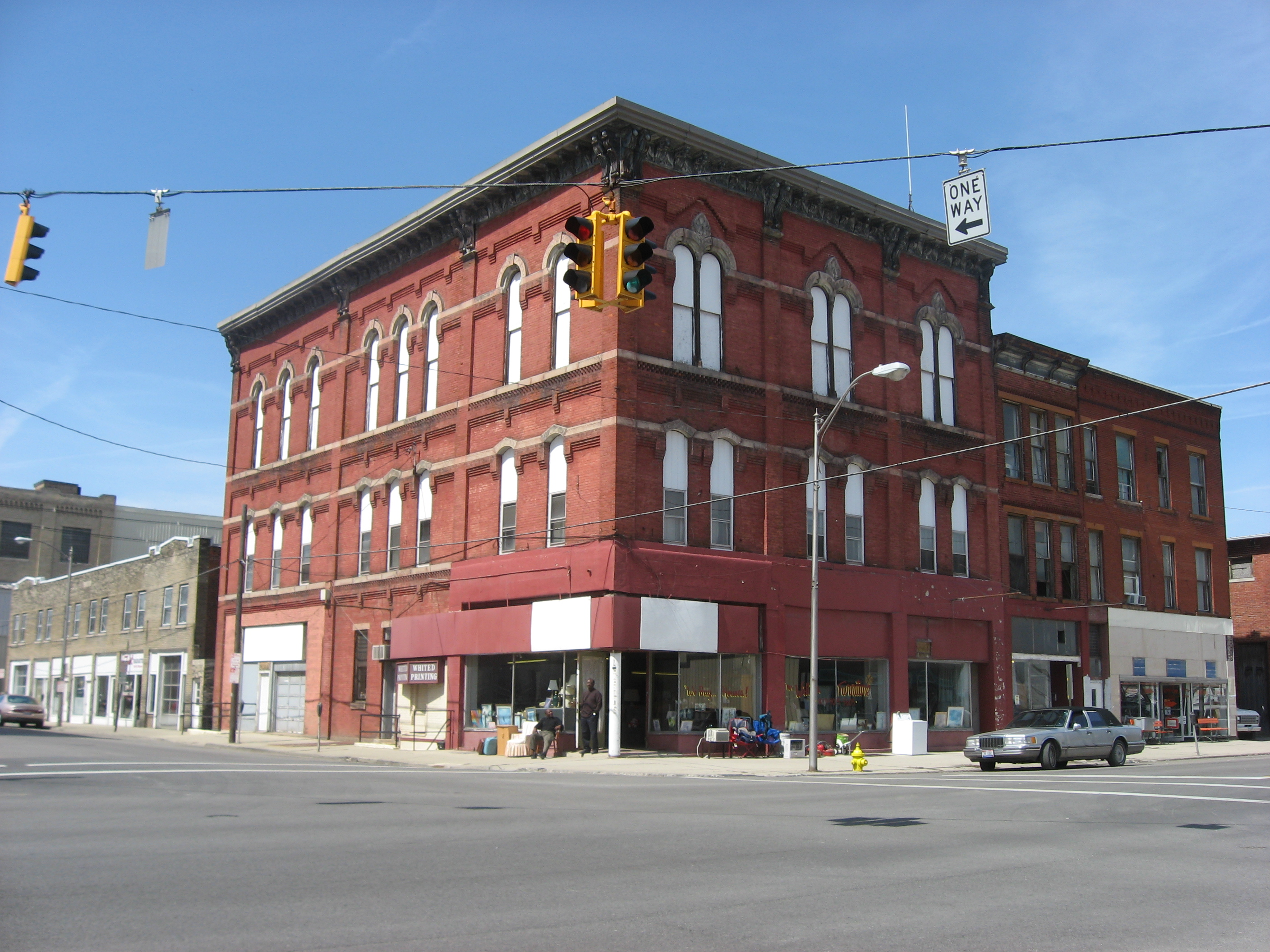 Front of the Klaus Block, located at 401-405 N. Main Street in Lima, Ohio, United States. Built in 1870, it is listed on the National Register of Historic Places.